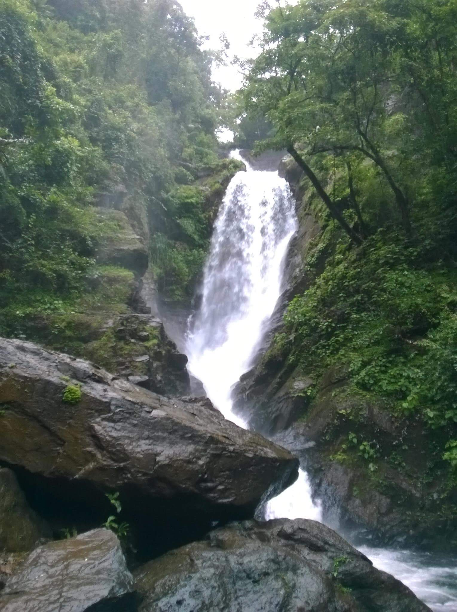 Dudhsagar waterfall in kullem Goa